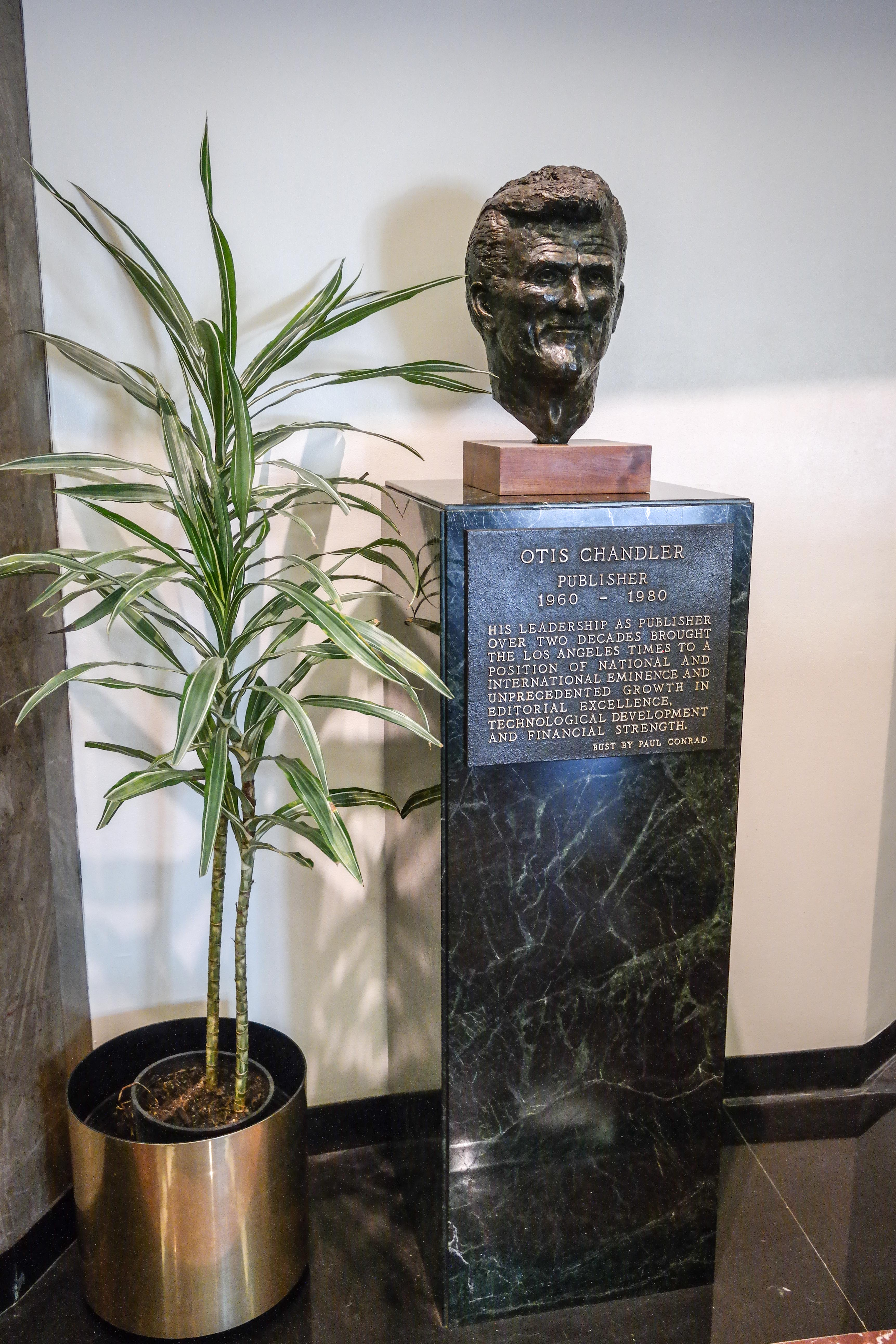 A bust of former publisher Otis Chandler (1927−2006), in the lobby of the Los Angeles Times Building.